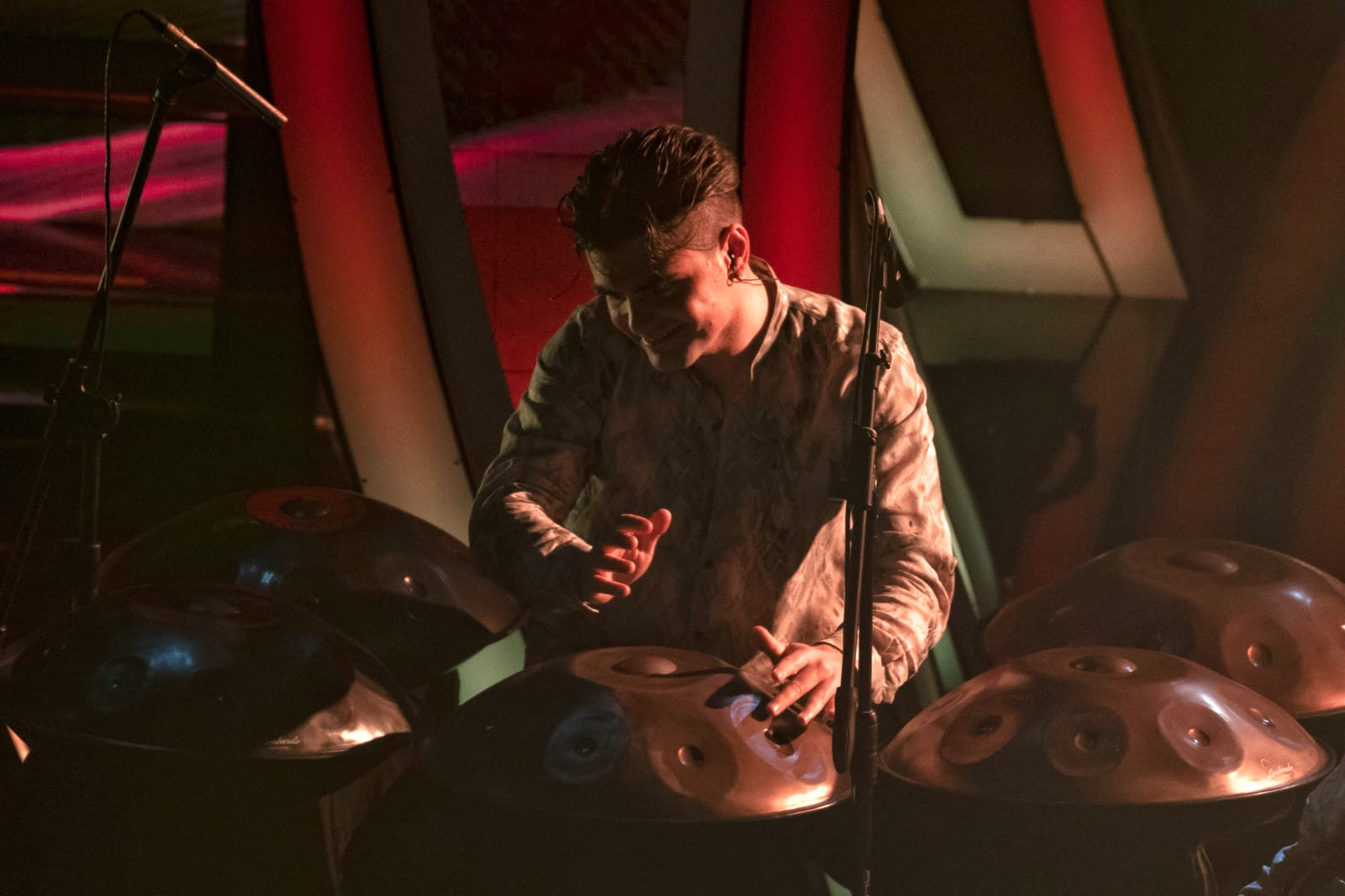 Percussionist Loris Lombardo is playing the handpans on the stage